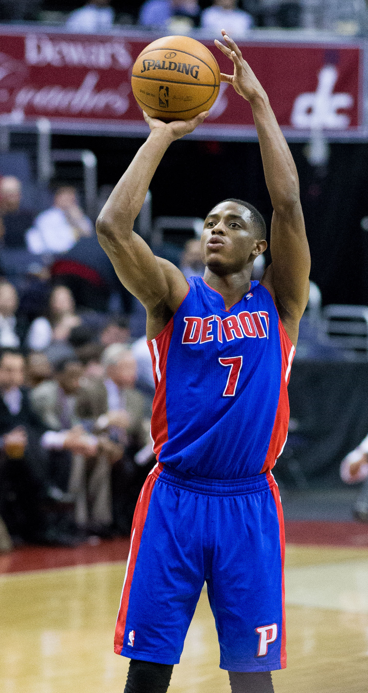 Detroit Pistons at Washington Wizards Feb 27, 2013